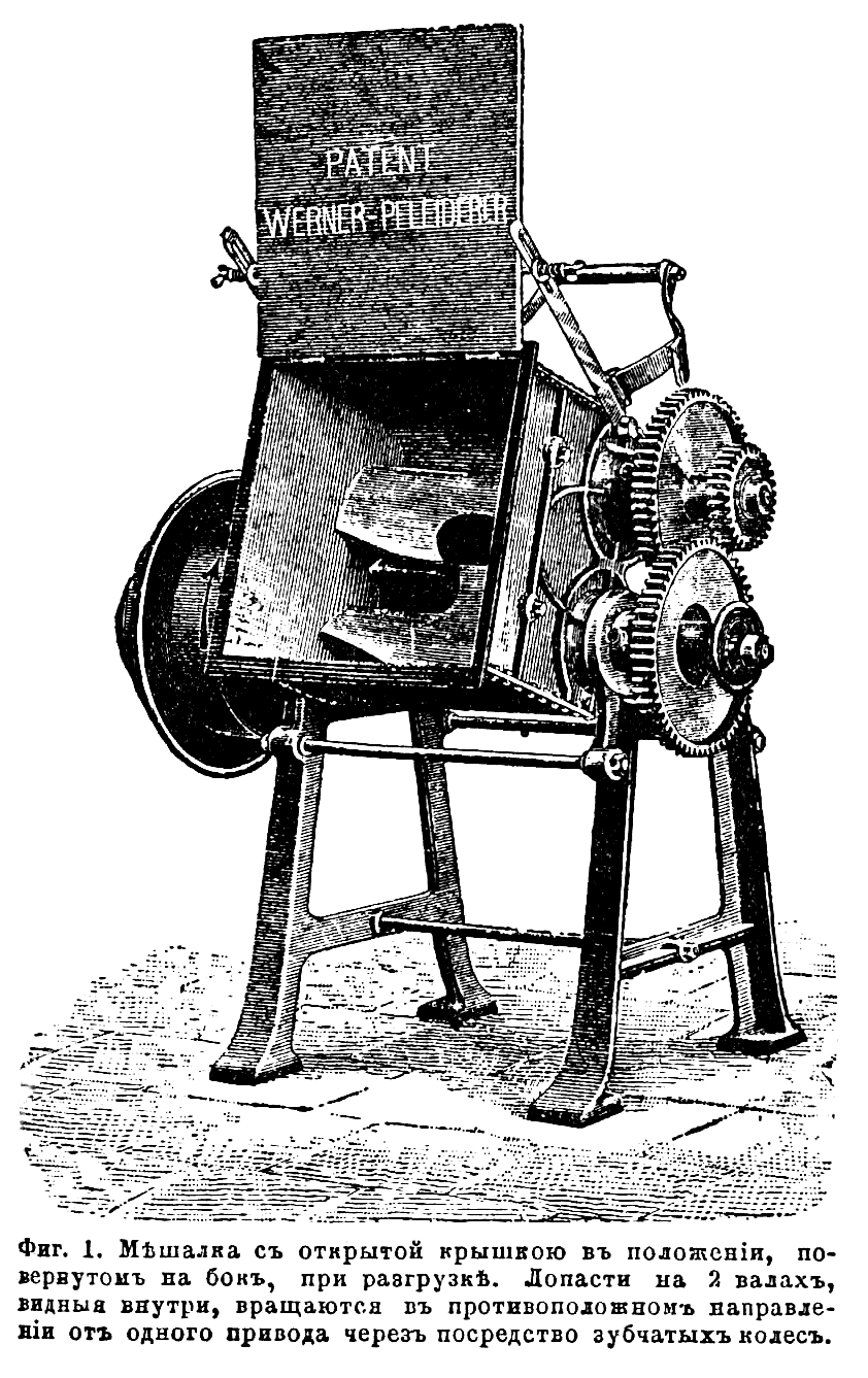 Illustration from Brockhaus and Efron Encyclopedic Dictionary (1890—1907)